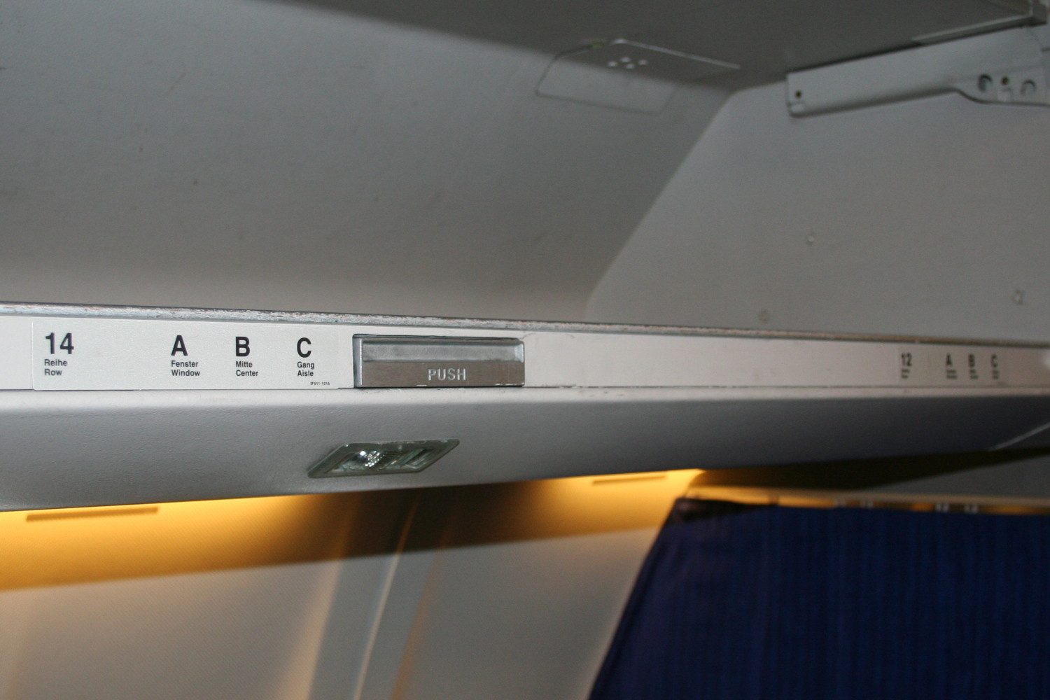 Inside of a Lufthansa airplane, showing the absence of row 13